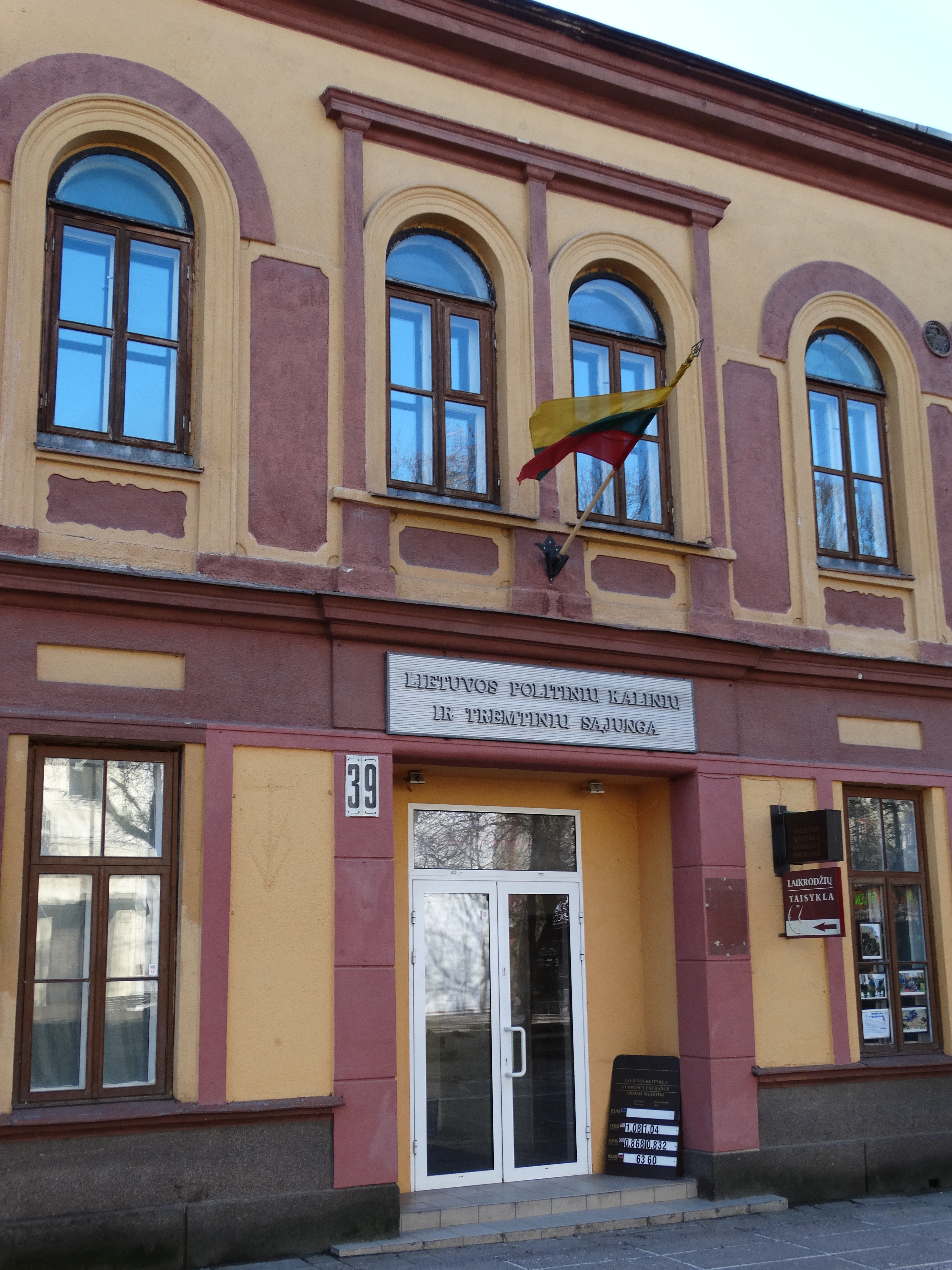 Union of Political Prisoners and Deportees, Laisvės al.39, Kaunas, Lithuania